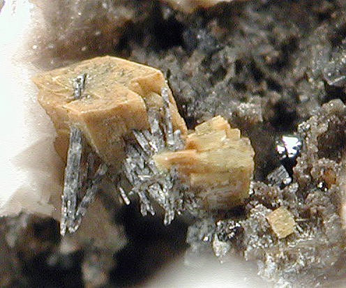 Kolbeckite (Field of view 1.5 mm) Locality: Union Carbide Christy Vanadium Mine, Magnet Cove, Hot Spring County, Arkansas, USA Original description: Yellow-tan pseudo-rhombohedral crystals of kolbeckite, skewered by something (goethite?) from Christy Pit. Ex-Clyde Hardin Collection. K. Nash specimen and photo.